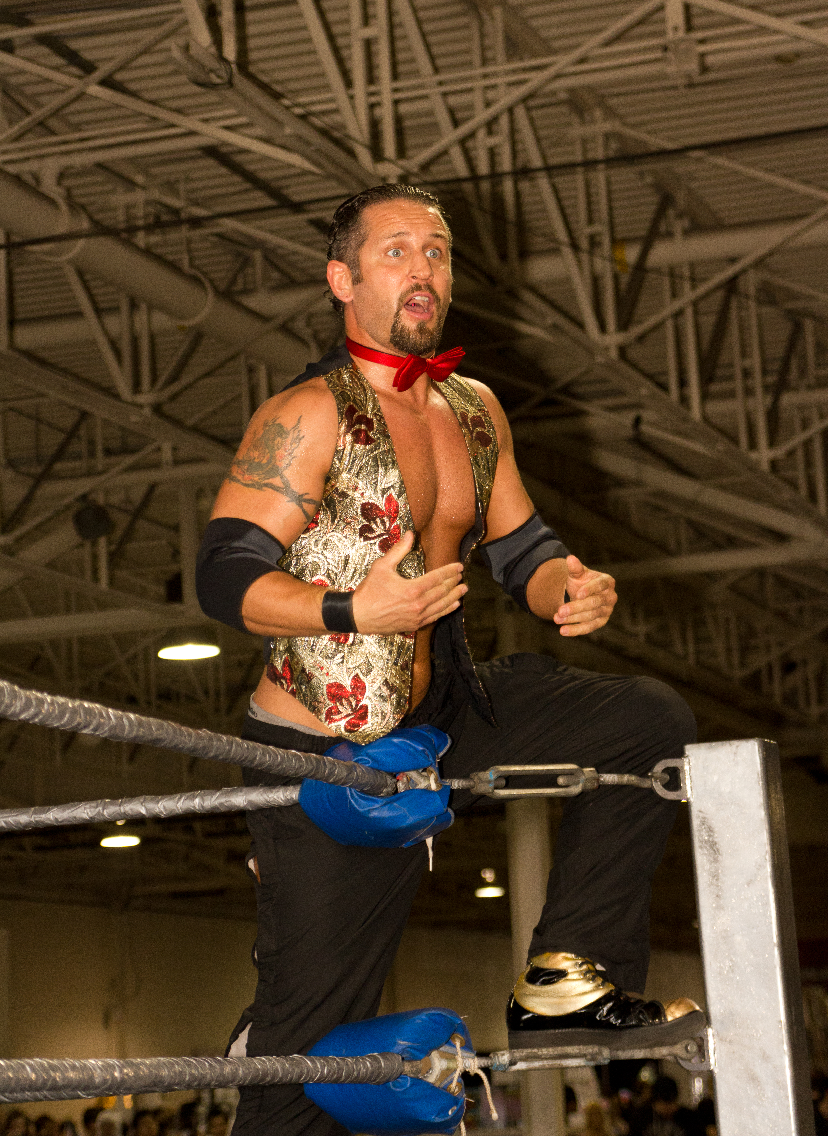 Professional wrestler Eddy Dorozowsky, aka "SeXXXy Eddy", making his ring entrance at a wrestling show at Anime North